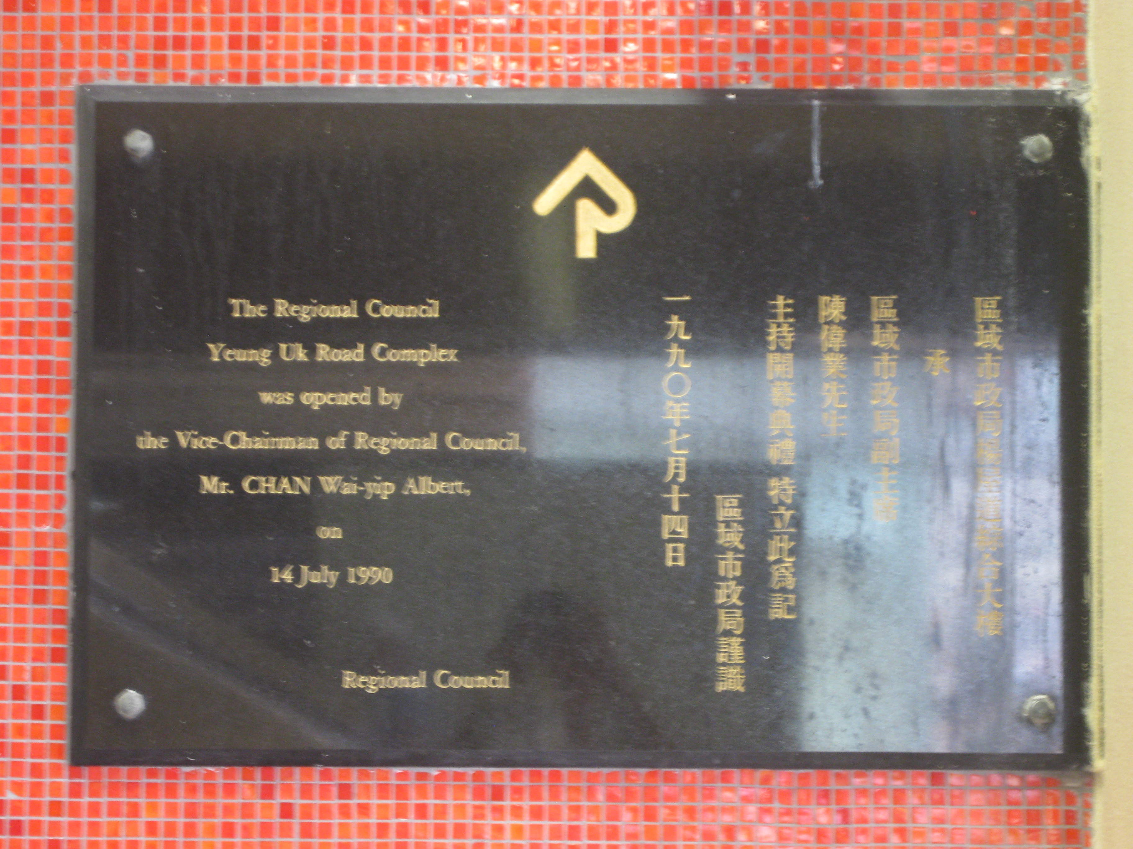 Yeung Uk Road Market inaugurated by Albert Chan memorial